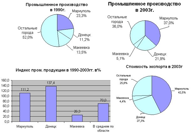 Table of Mariupol Economic